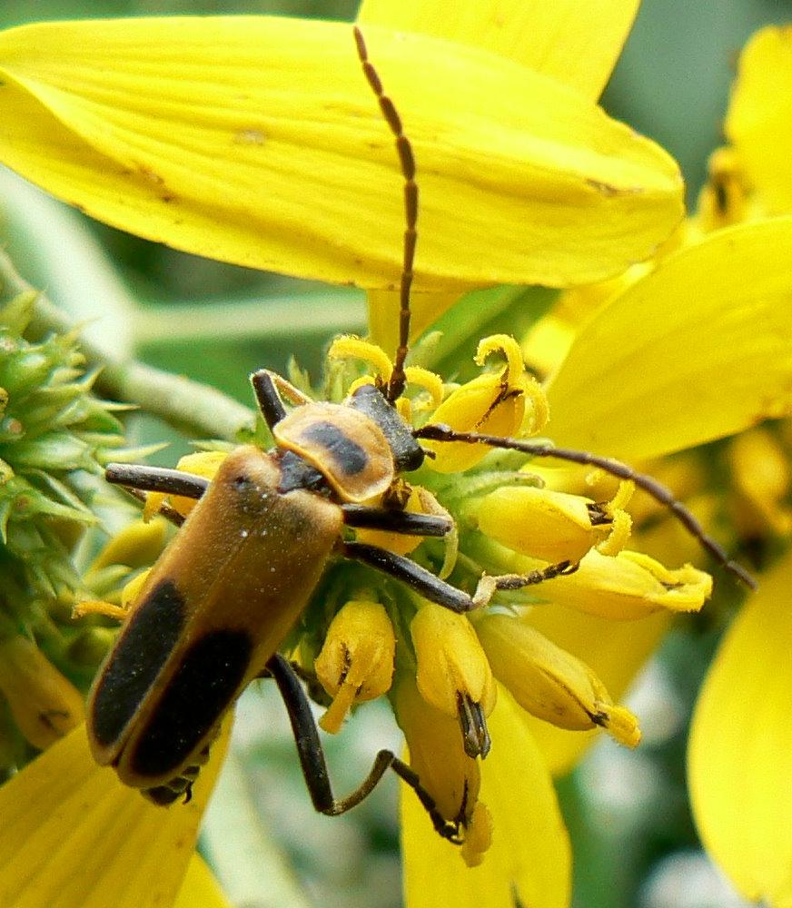 Goldenrod Soldier Beetle